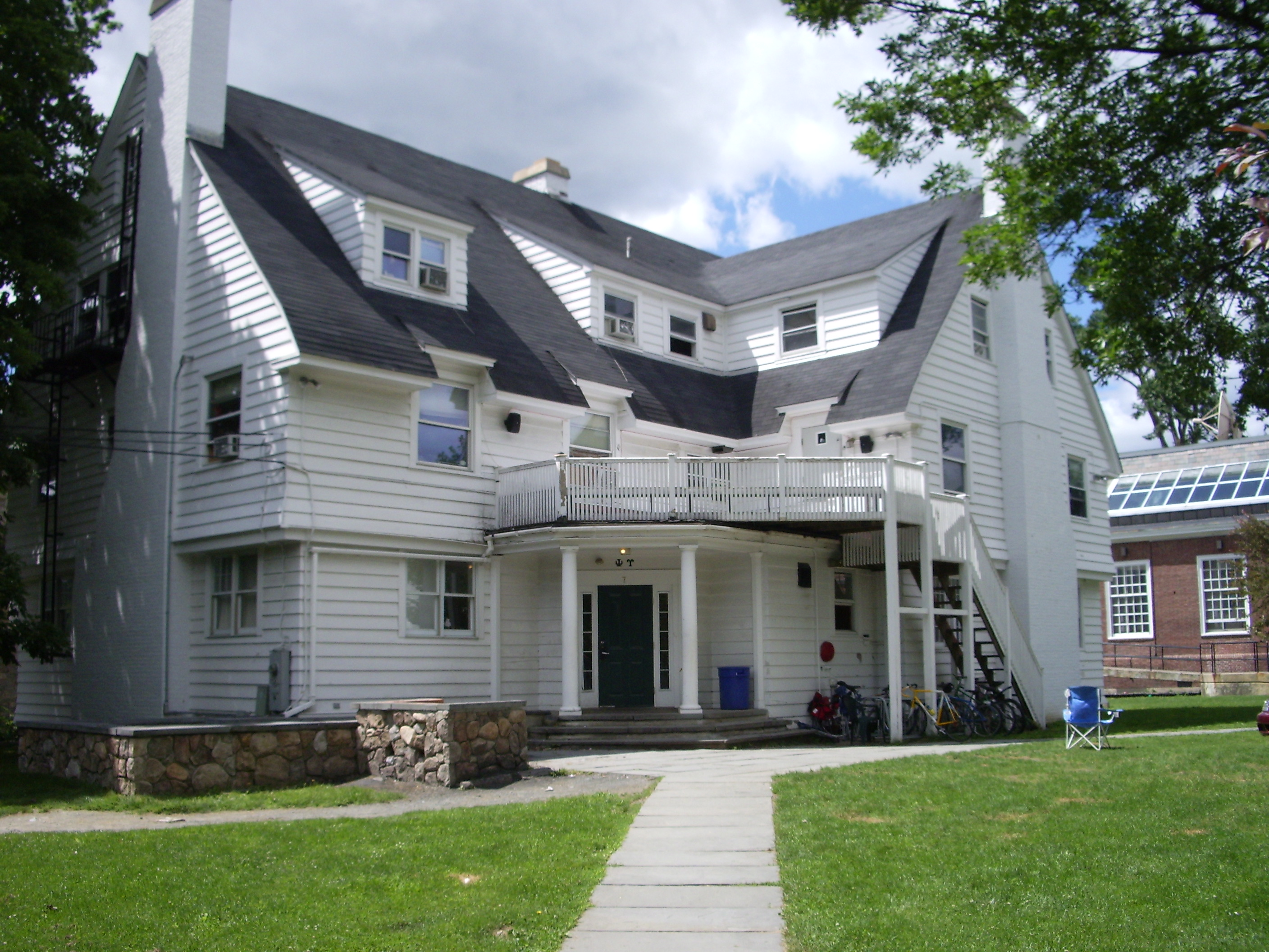 Photograph of Psi Upsilon at the campus of Dartmouth College in Hanover, New Hampshire.